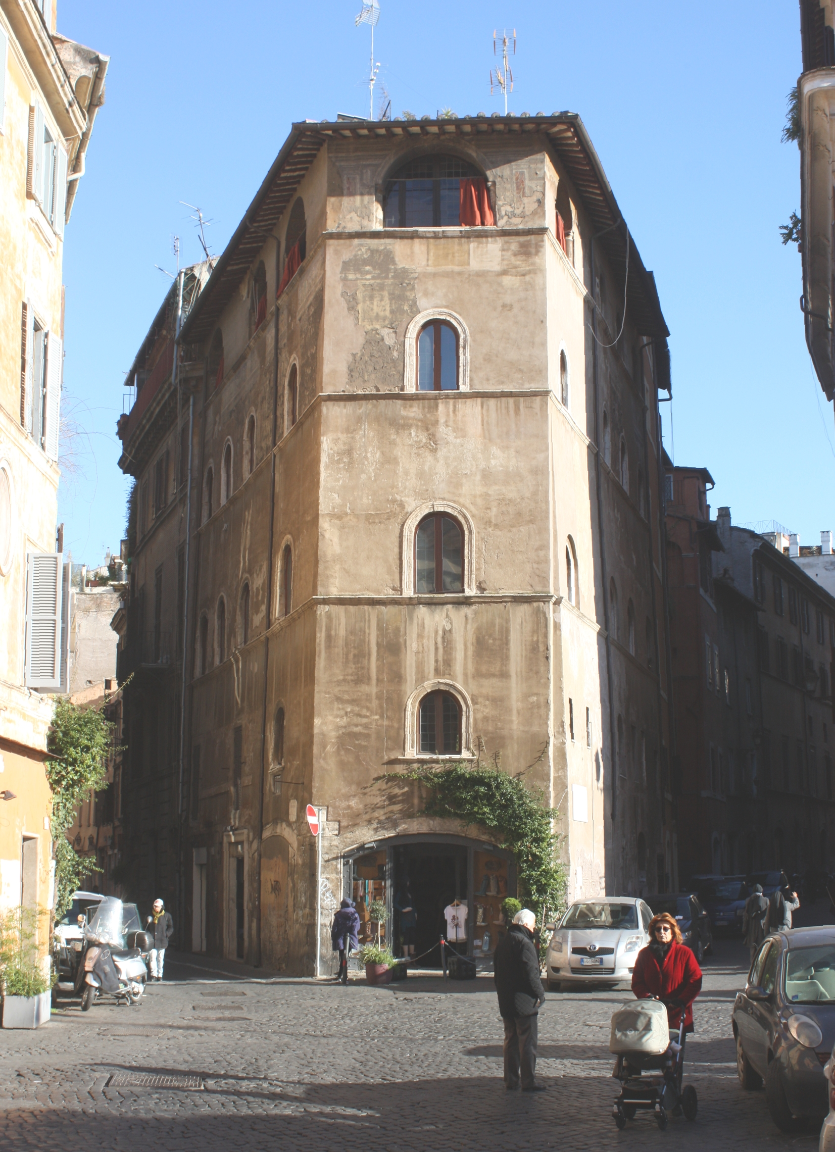 Rome, the house 147 Via di Monserrato